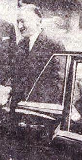 Momčilo Moma Marković (1912 – 1992), Serbian politician